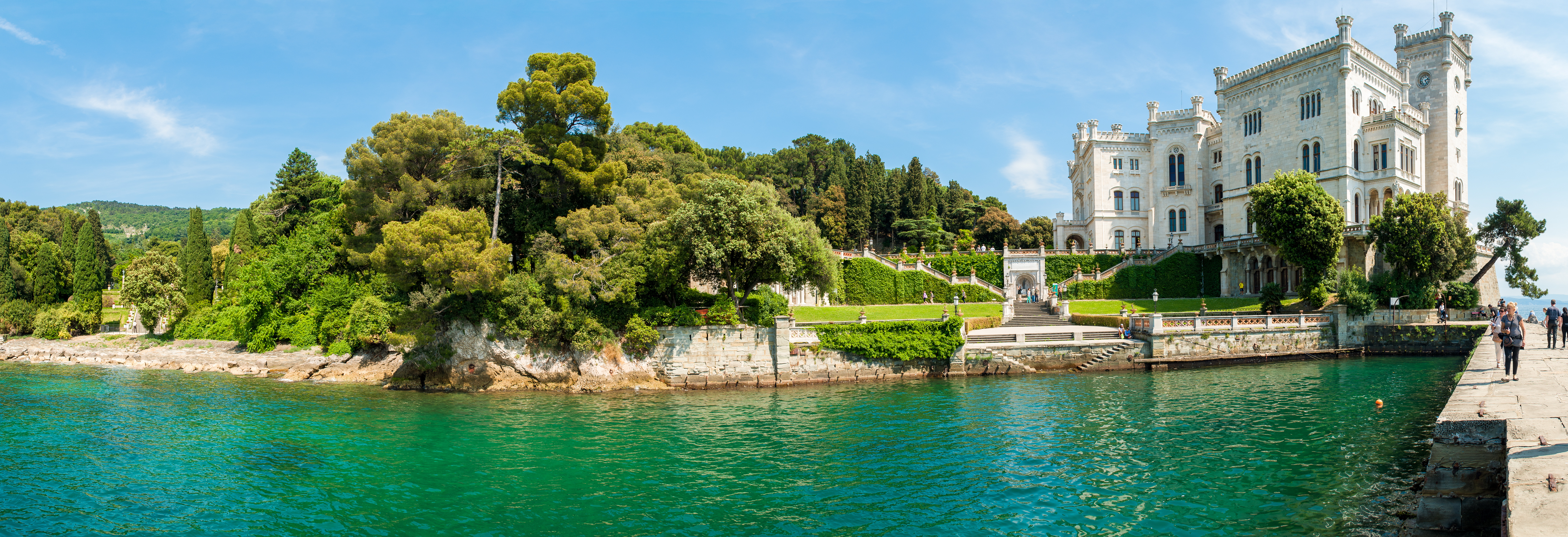 Panorama of Miramare castle near Trieste, Italy